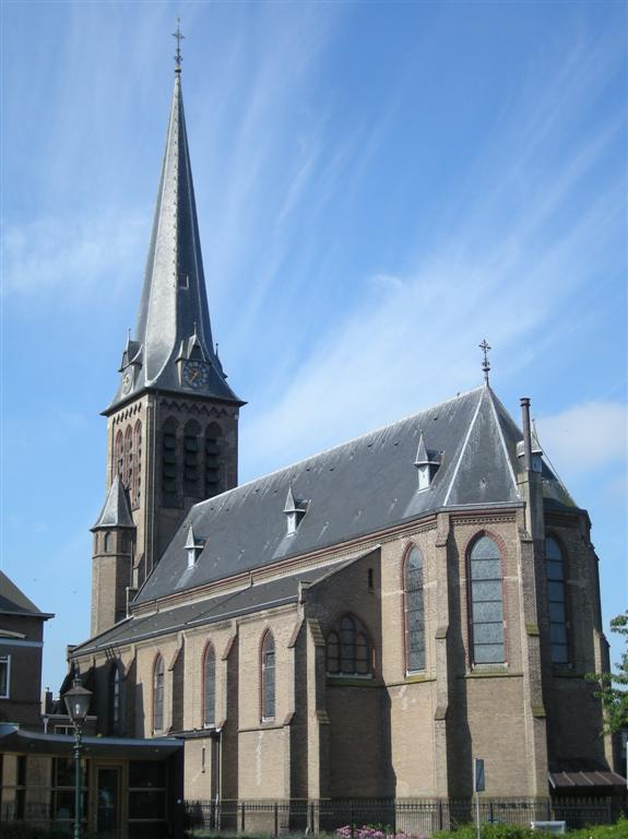 Church in Lemmer, Friesland, Netherlands